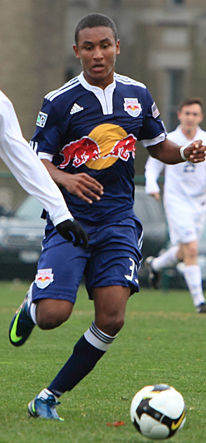 Juan Agudelo of New York Red Bulls in March 2010.